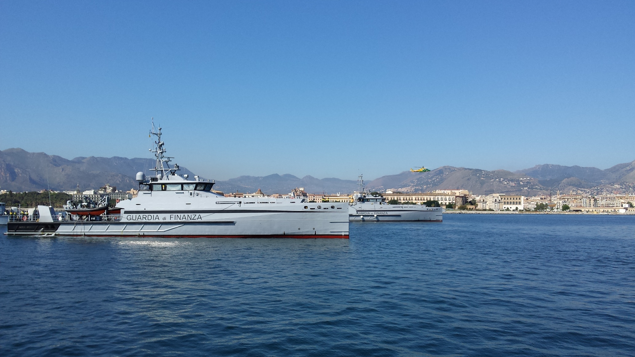 Patrol boats Monte Sperone and Monte Cimone of the Italian Guardia di Finanza corps entering the port of Palermo, Sicily, Italy.